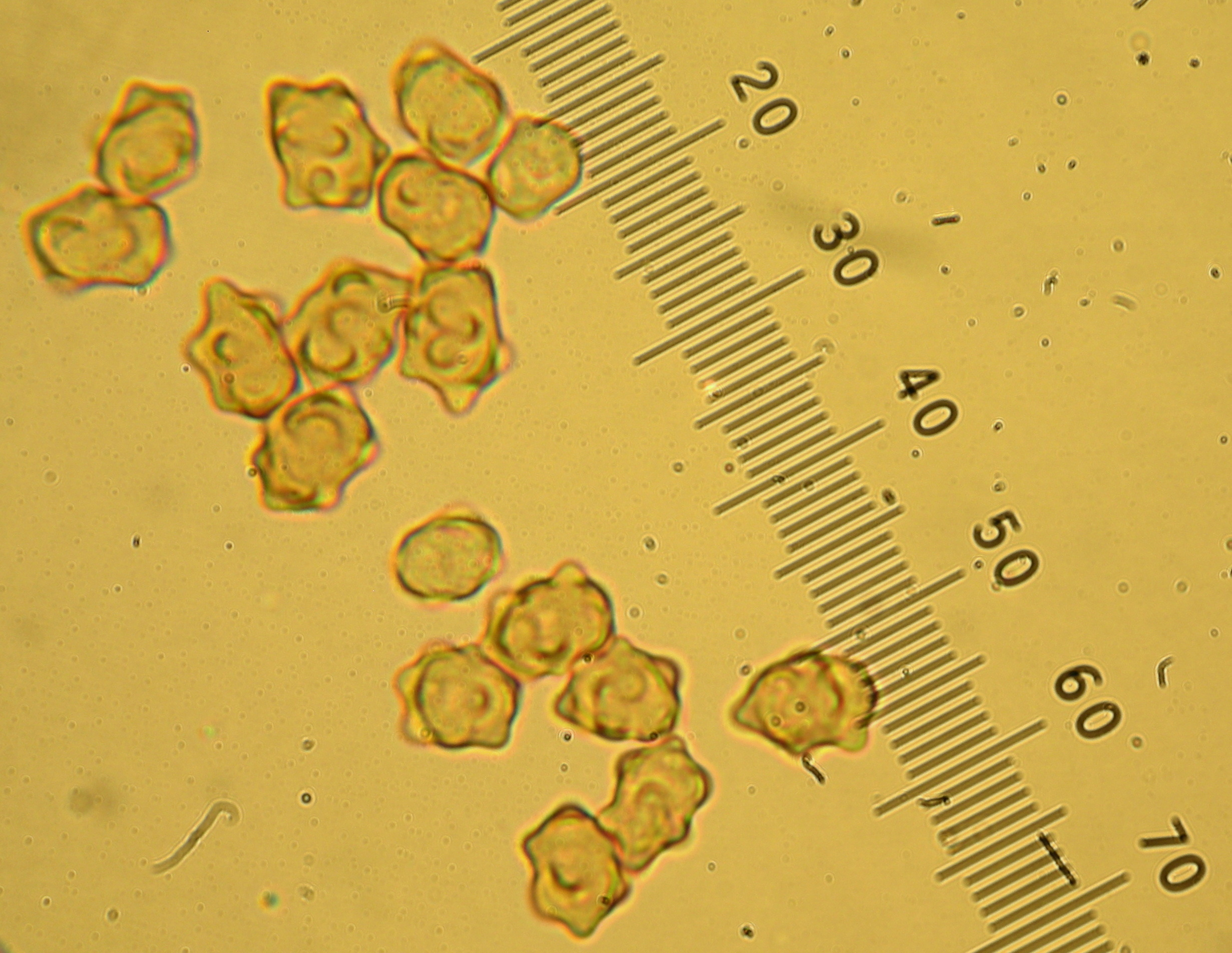 Spores of Inocybe mixtilis (Britzelm.) Sacc. Image location: Bolinas Ridge, Marin Co., California, USA These were found in the same general area as MO #28975 but almost 7 months later in the year. Spores were ~ 7.8-9.0 X 5.9-6.5 microns and very knobby. The angled abrupt bulb at the base seems to be a good diagnostic characteristic. Recognized by sight For more information about this, see the observation page at Mushroom Observer.